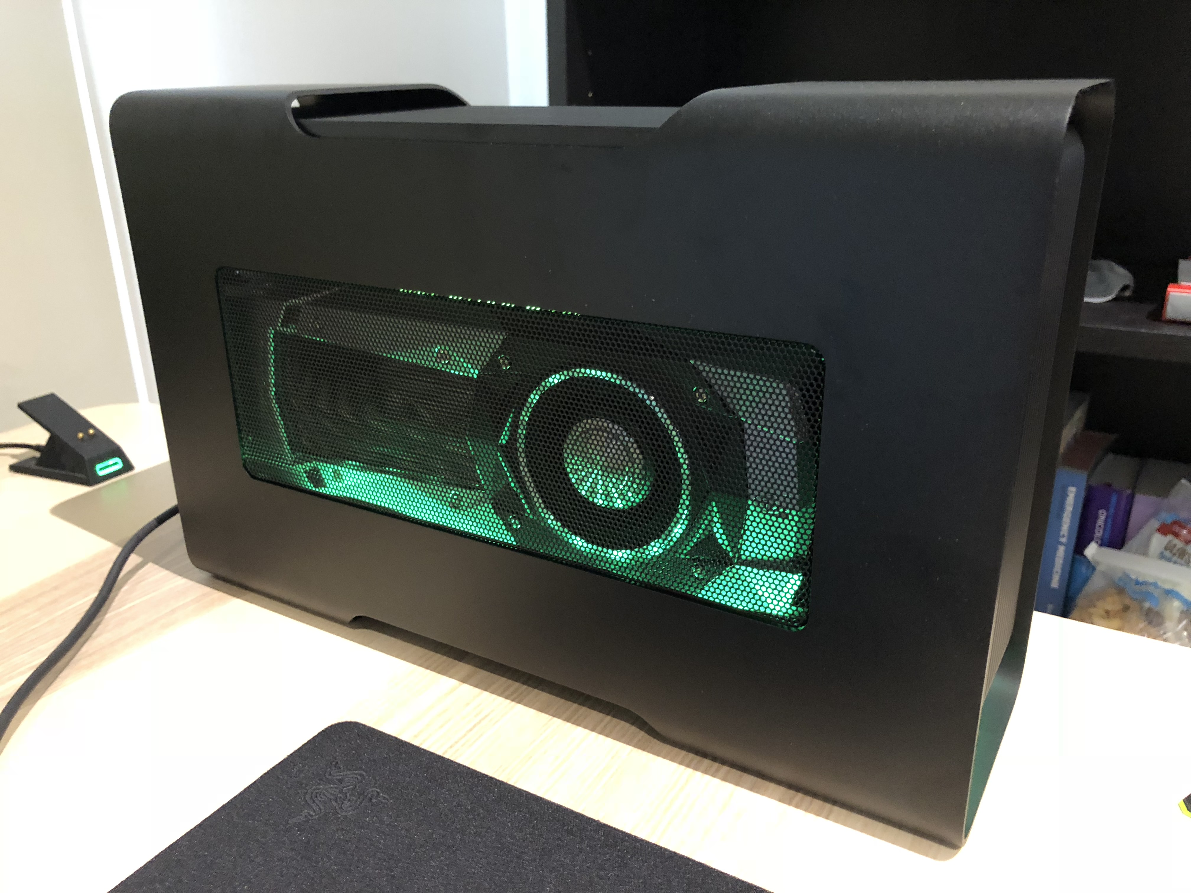 Razer Core V1 from Egpu.io